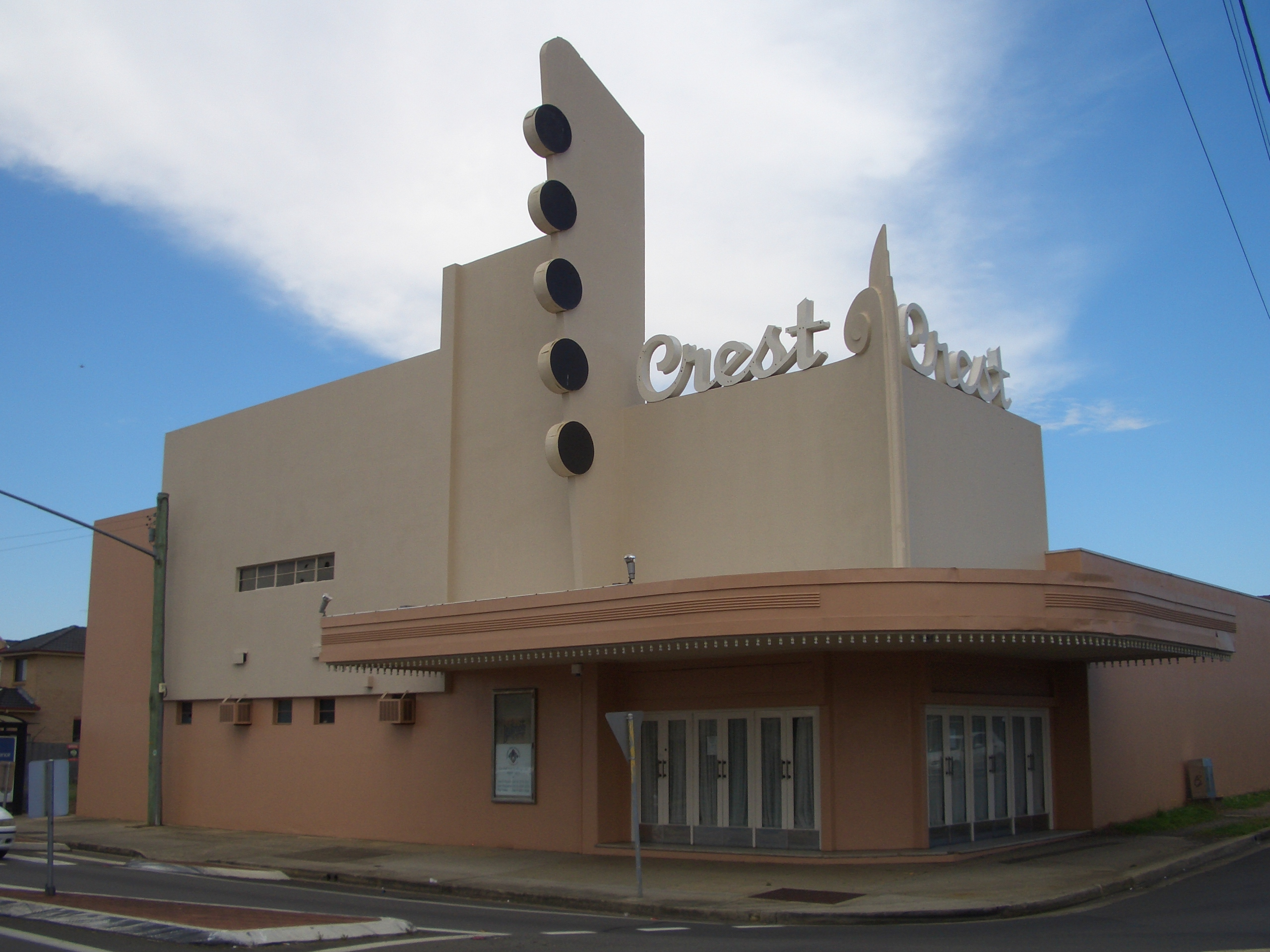 The "Crest" Theatre/Ballroom in Blaxcell Street (corner Redfern st), Granville, NSW, Australia. This was originally a Hoyts film or 'picture theatre' and originally the round plaques on the vertical panel had the letters "H-O-Y-T-S" on them — later they were replaced by the title "B-I-N-G-O" - a gambling game popular in Australia.